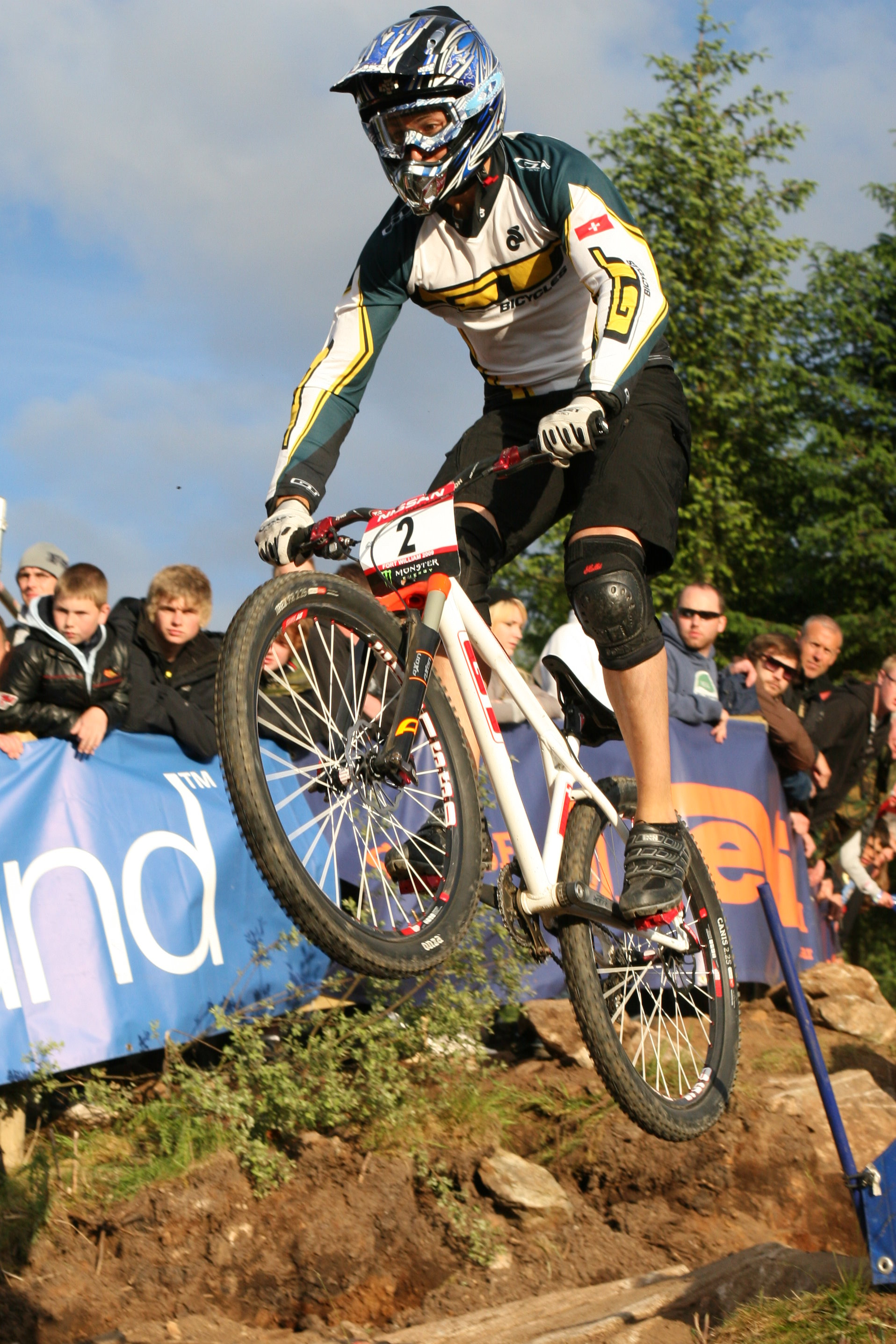 4X Finals from the 2009 UCI MTB World Cup at Fort William